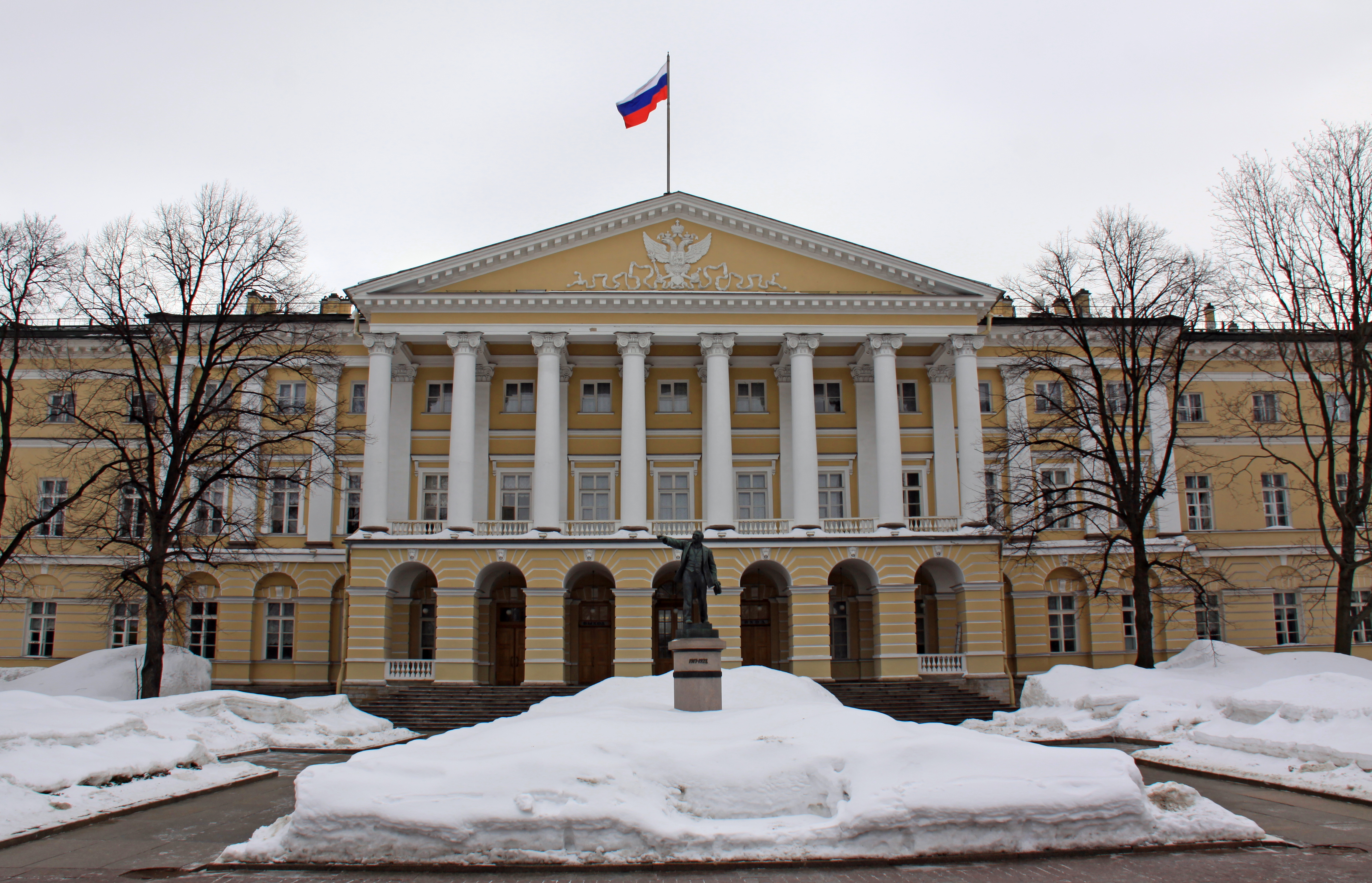 Smolny Institute in Saint Petersburg